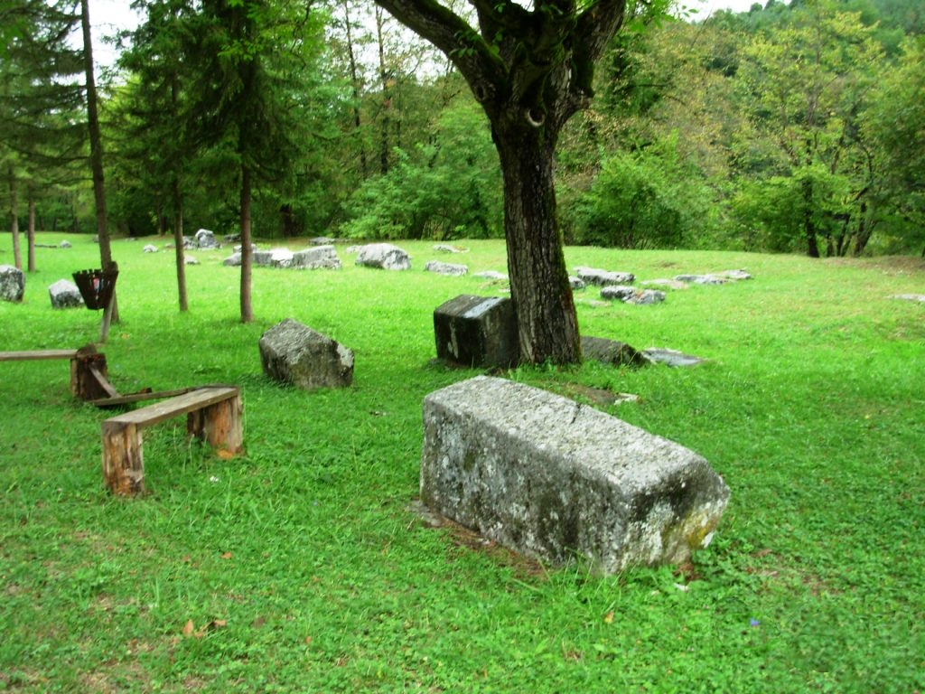 Mramorje, steán necropolis, Serbia. View before reconstruction of the entire complex in 2011